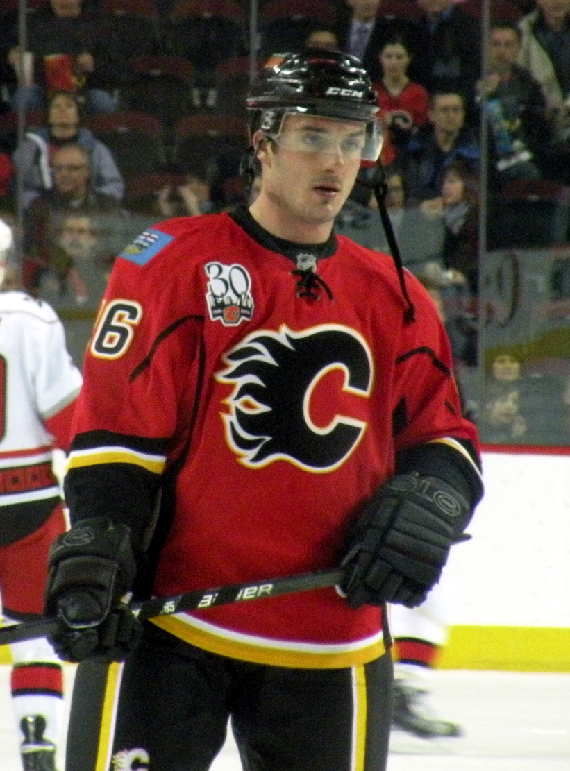 Calgary Flames forward Ales Kotalik prior to a National Hockey League game against the Carolina Hurricanes.